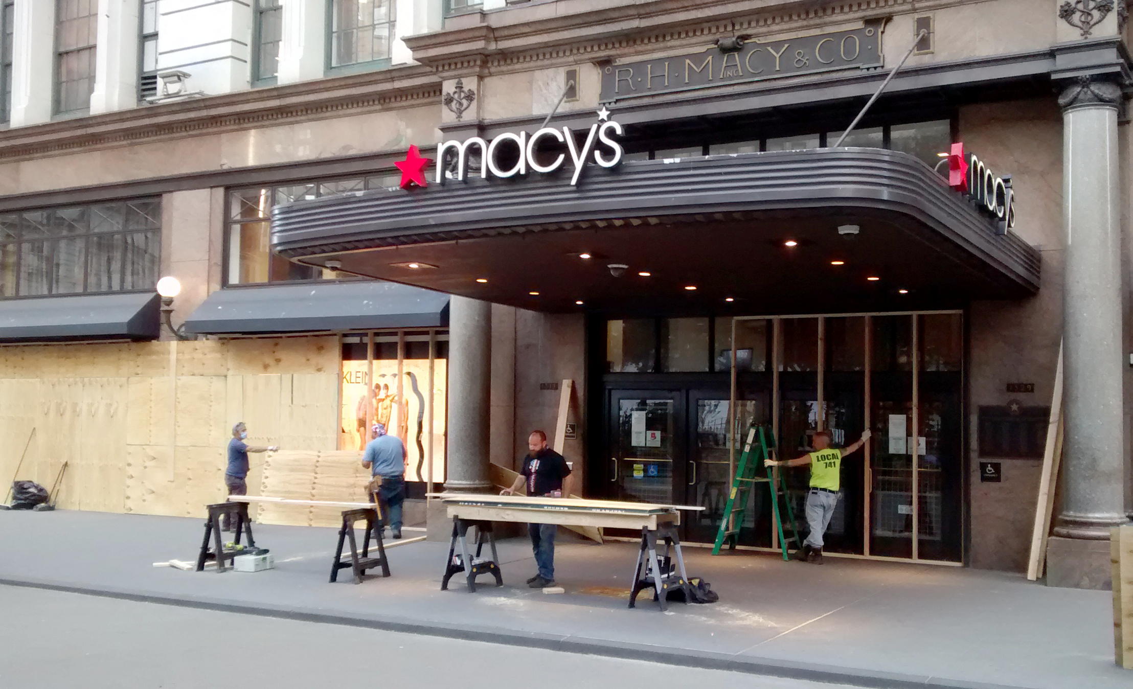 Macy’s flagship store in Midtown Manhattan being boarded up; carpenters in front of the Herald Square entrance cutting lumber on sawhorses, erecting wooden frames in front of doors and windows, and affixing plywood to them. Seen on May 31, 2020.